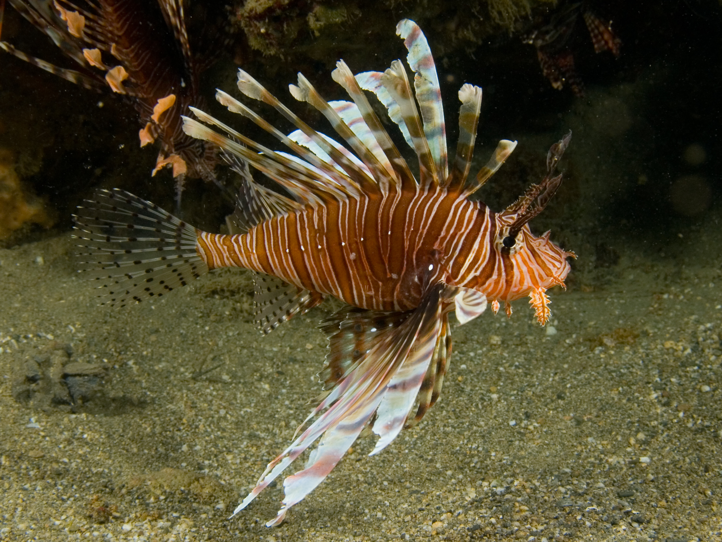 Pterois volitans (Lionfish)